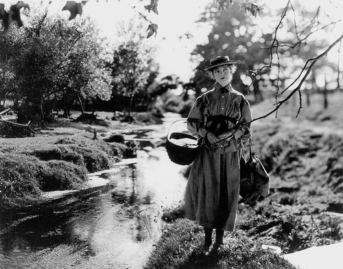 Lillian Gish in True Heart Susie (1919).